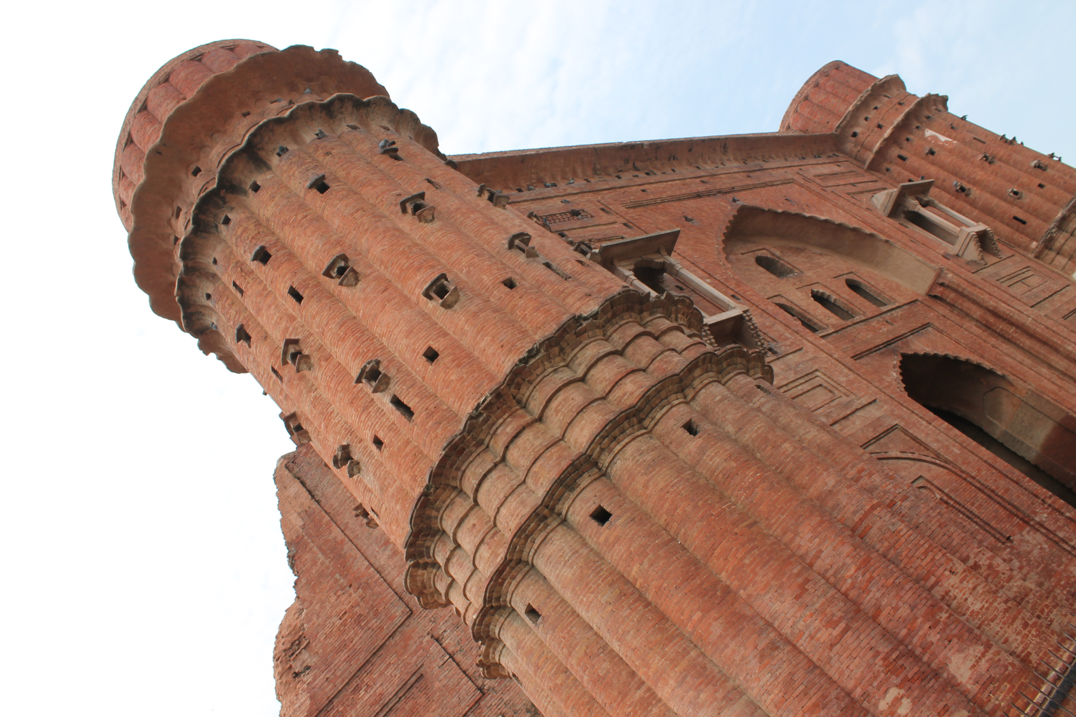 Gateway of old Mughal Sarai (North)-Gharaunda